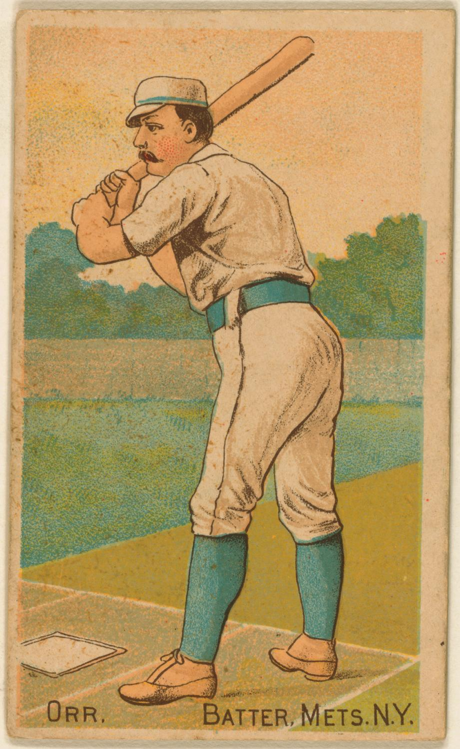 Card of David L. (Dave) Orr (1859-1915), a first baseman in Major League Baseball from 1883 through 1890.